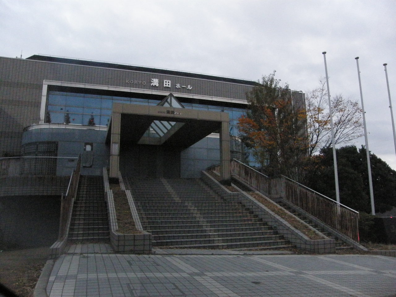 MIzota-hall,kobe-kitaku